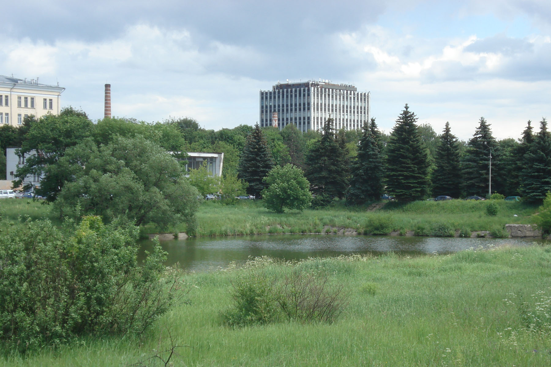 The Tekhichesky Pound, part of the Luboseevka River in the town of Fryazino, Moscow oblast.